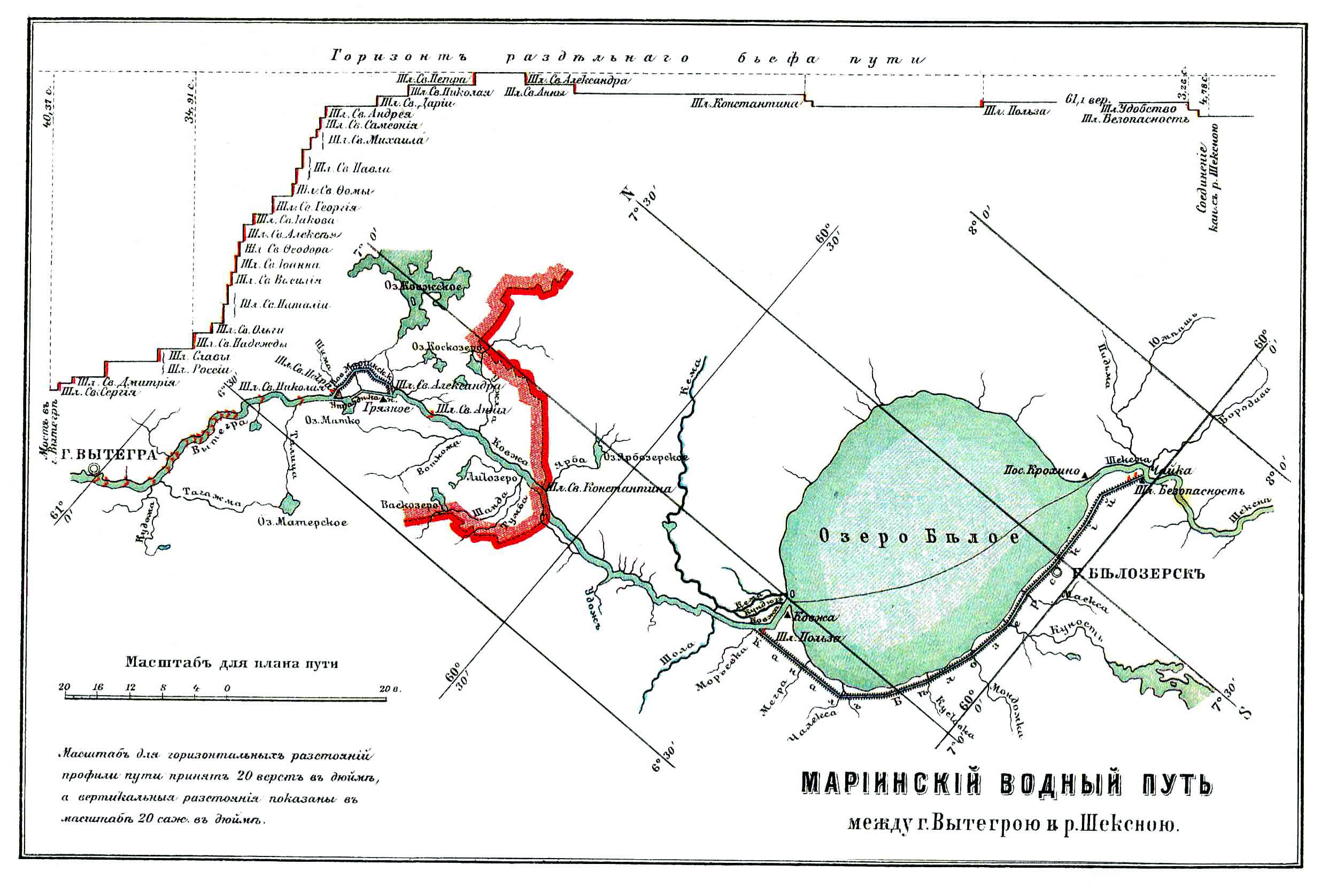 Illustration from Brockhaus and Efron Encyclopedic Dictionary (1890—1907)